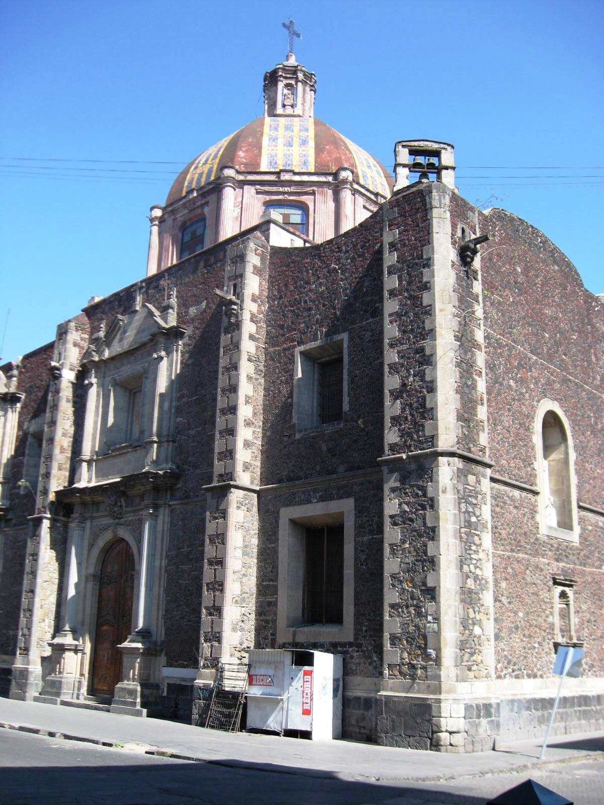 View of Santa Inés Church on Moneda Street in Mexico City's historic center